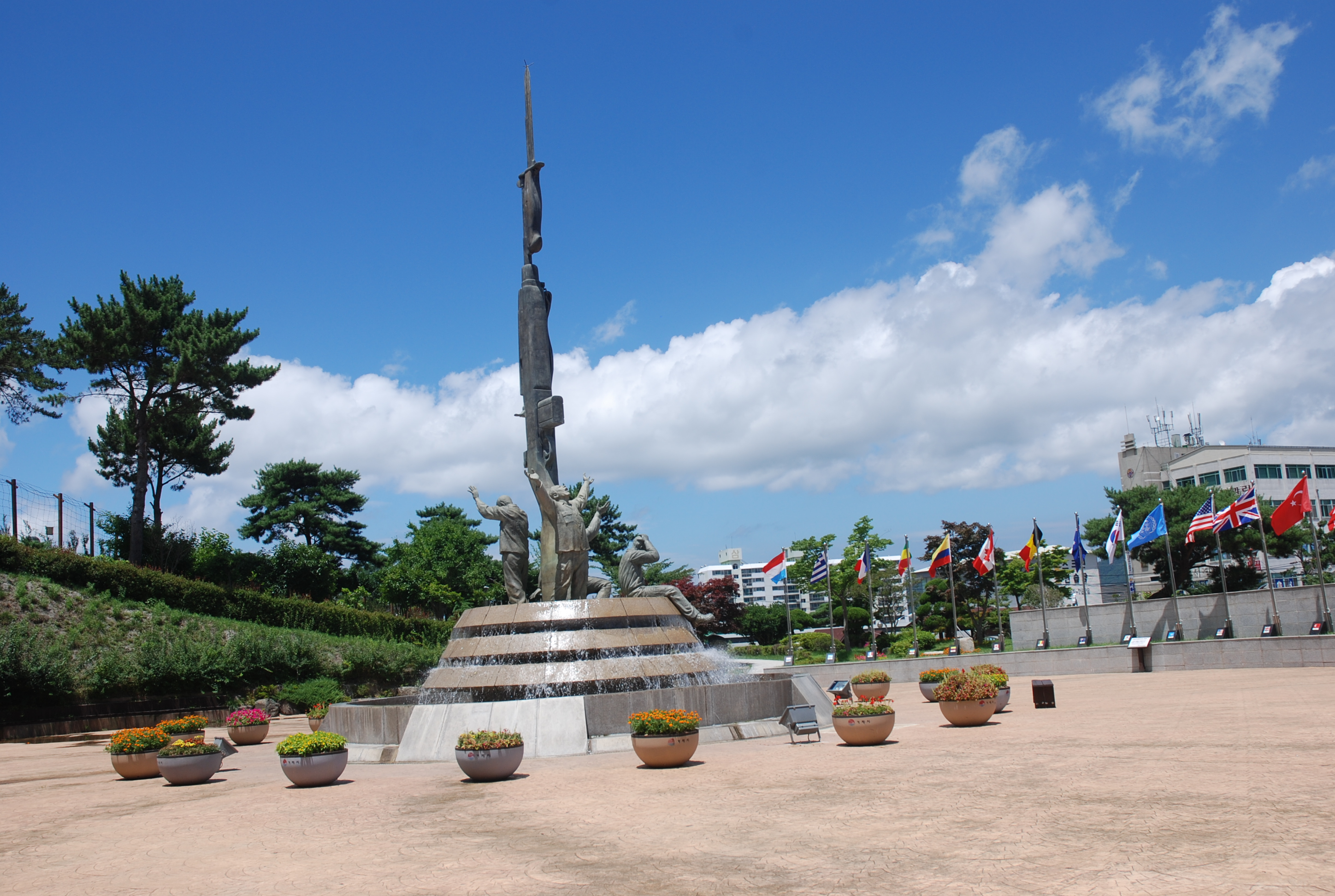 Geoje POW Camp Memorial Tower